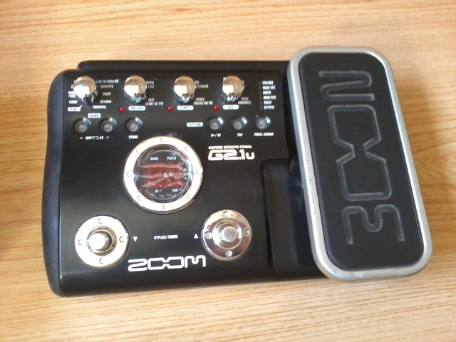 Zoom G2.1u multieffects pedal (the screen is a bit damaged).